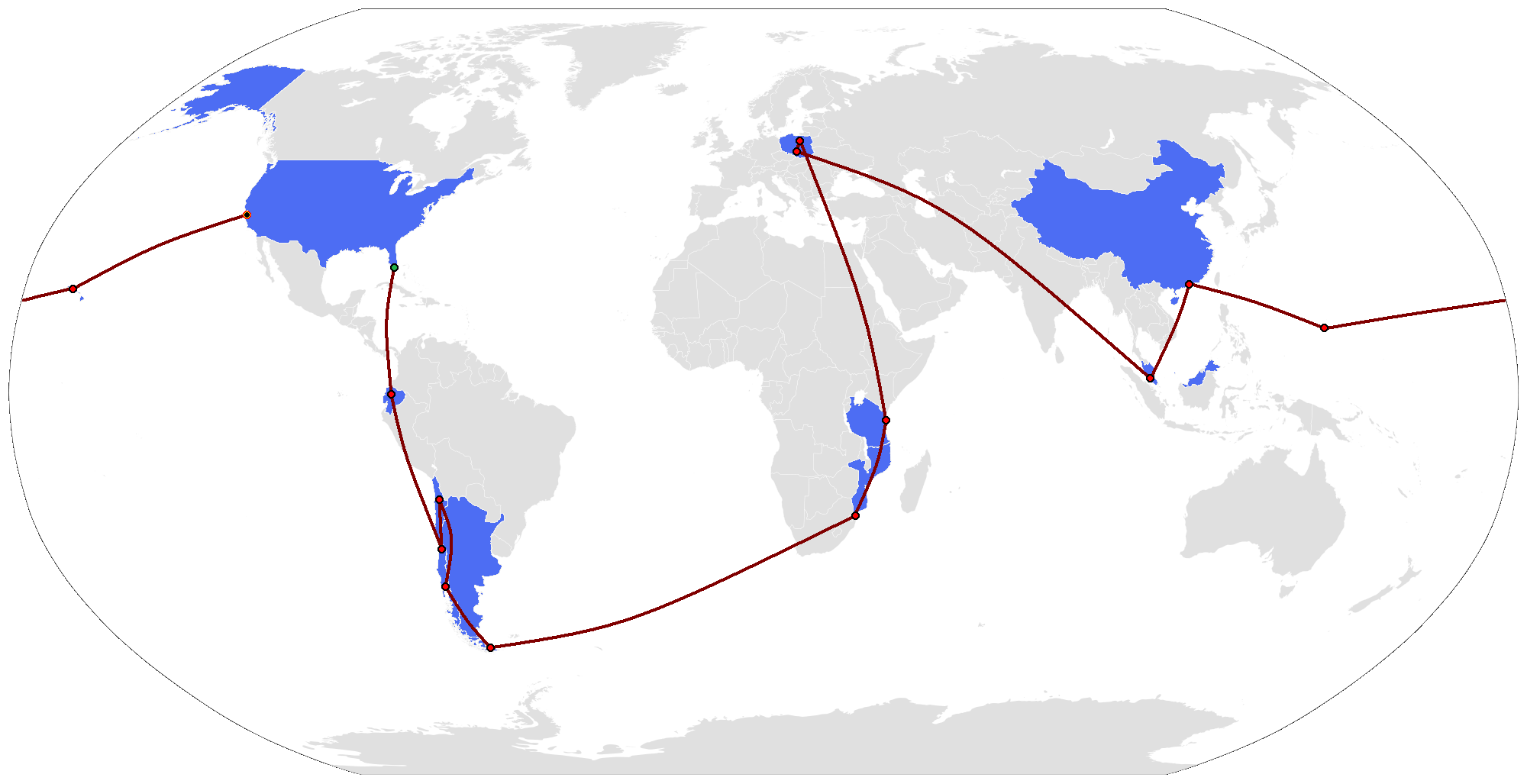 The Amazing Race 11 route map. Benjaminso's map from Wikipedia